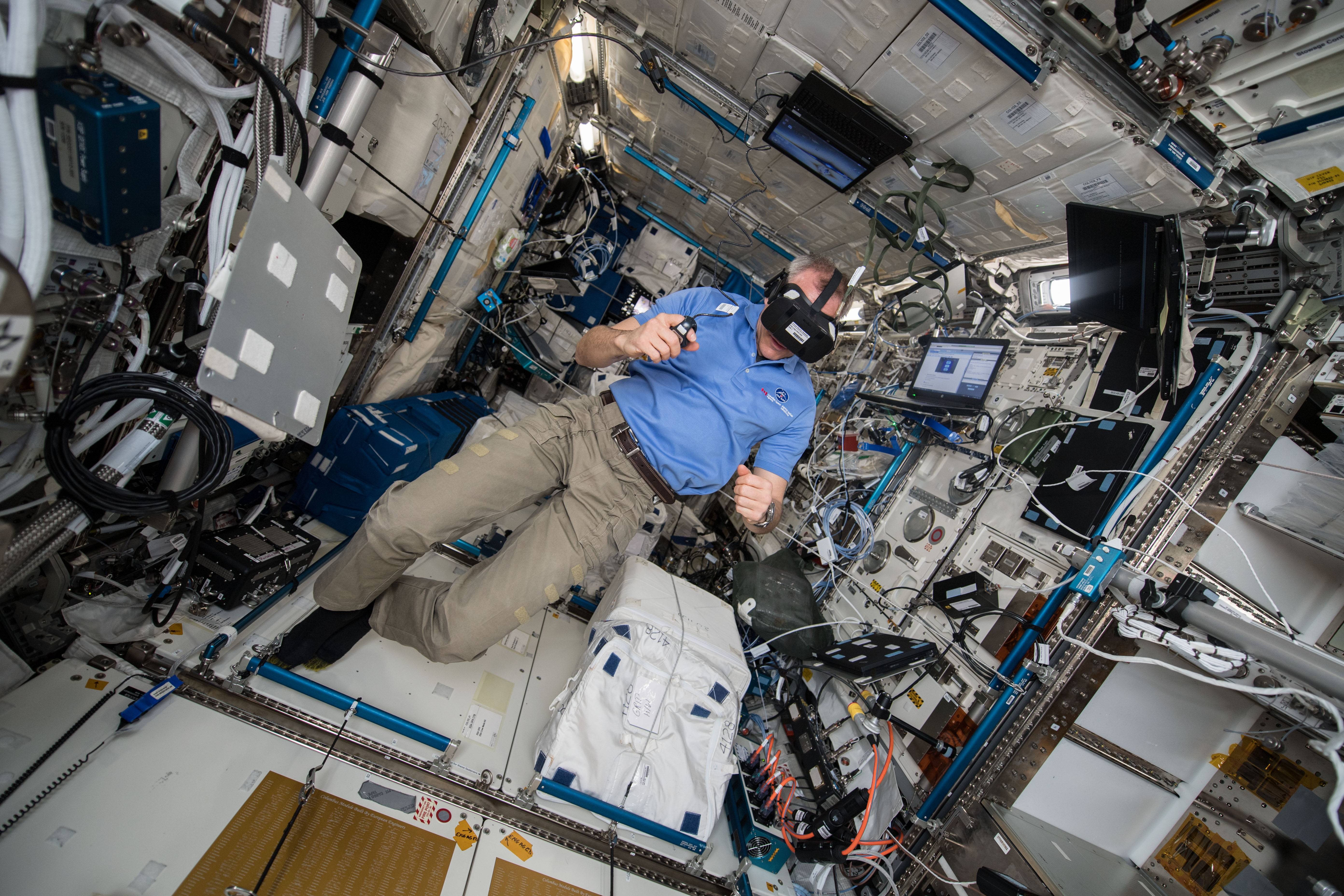 Canadian Space Agency astronaut David Saint-Jacques is shown onboard the International Space Station performing the Time Perception in Microgravity investigation. The goal of the Time Perception in Microgravity experiment is to investigate the perception of time to crew members aboard the station. Crew members are asked to evaluate or reproduce the display duration of a blue square presented in the center of the head-mounted display. The results are compared with pre- and postflight baselines.